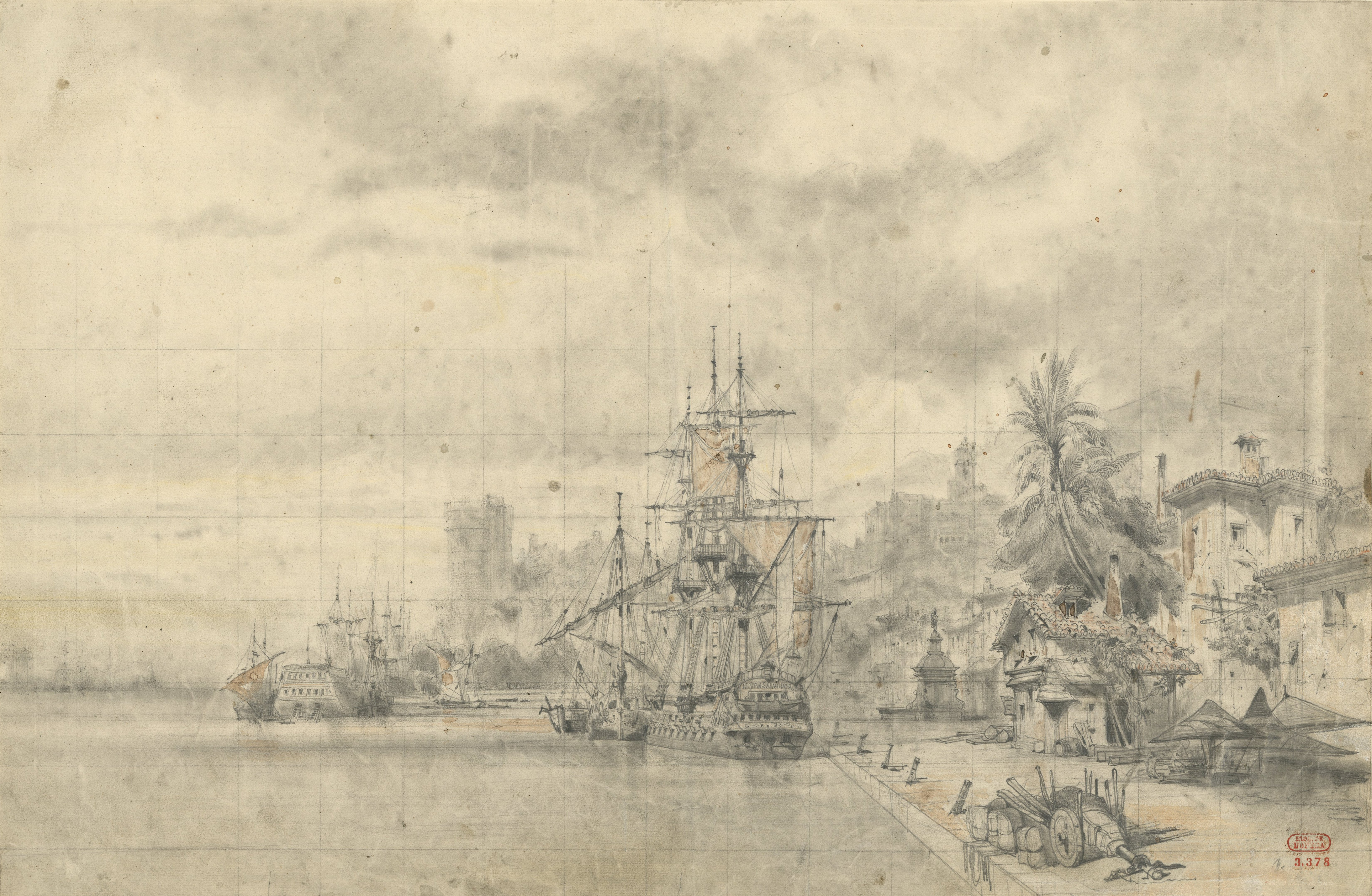 Cadiz (Harbor or Harbour)